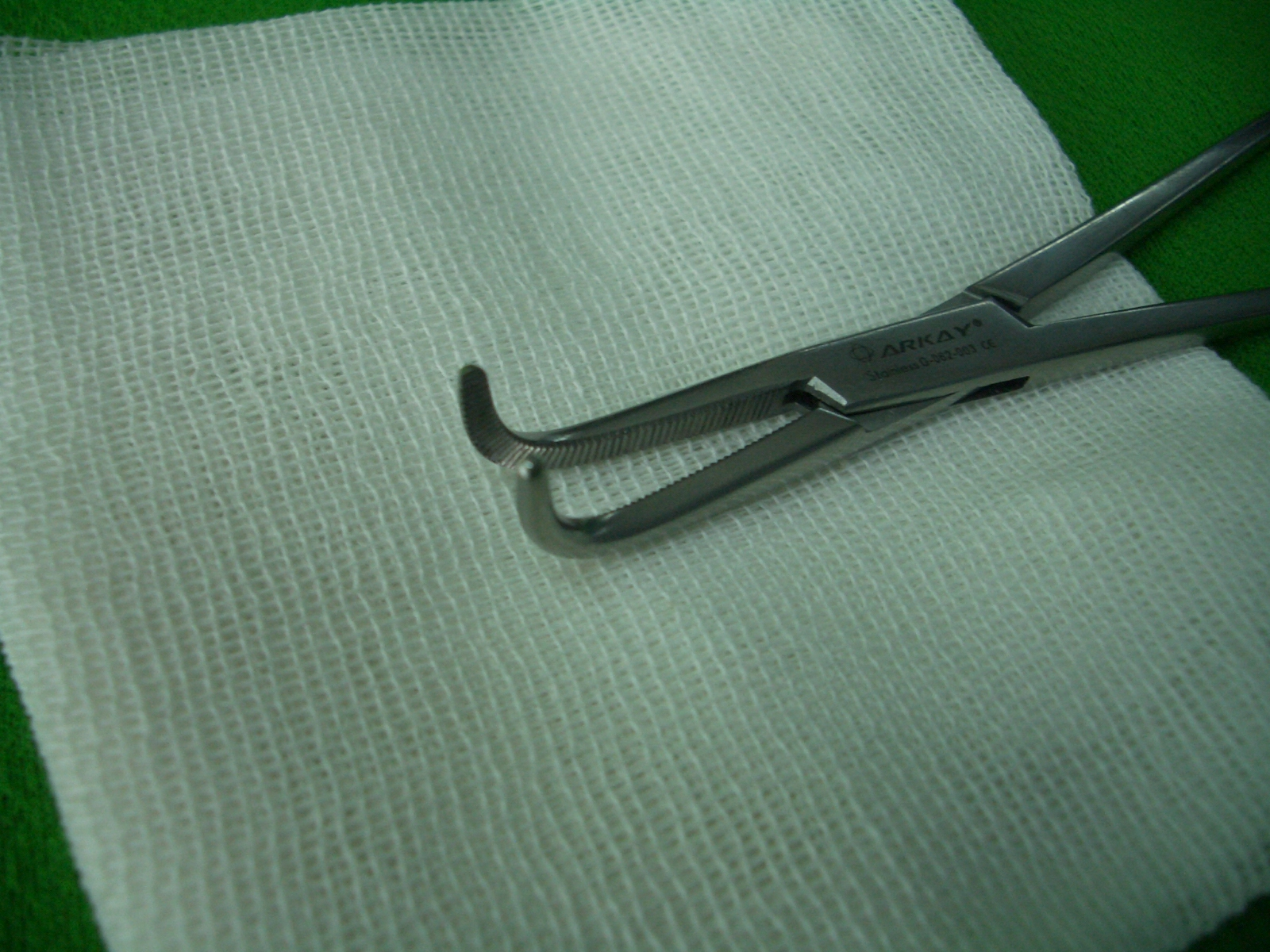 The right angle clamp, is a surgical instrument used primarily by general, vascular, and cardiothoracic surgeons, as well as in certain gynecological procedures. They come in a variety of lengths and sharpness of angle. The shape of the clamp is ideal for occluding blood vessels, assisting in dissection and passing sutures around structures.